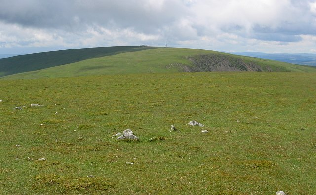 Smooth vegetation near the summit of Cramalt Craig (831m) The distant hill is the highest in the area (Broad Law, 840m)